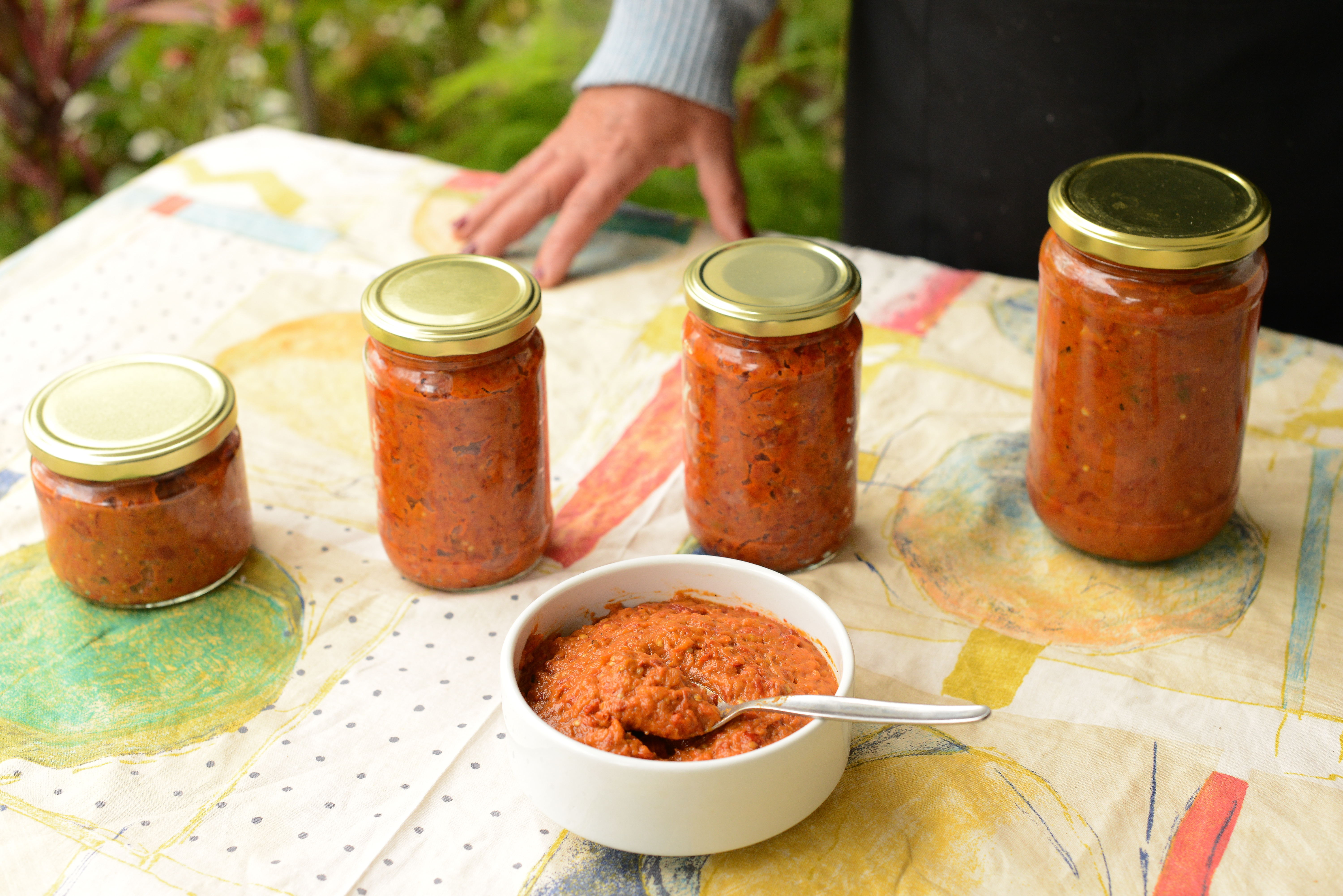 Ajvar is a pepper-based condiment made principally from red bell peppers.